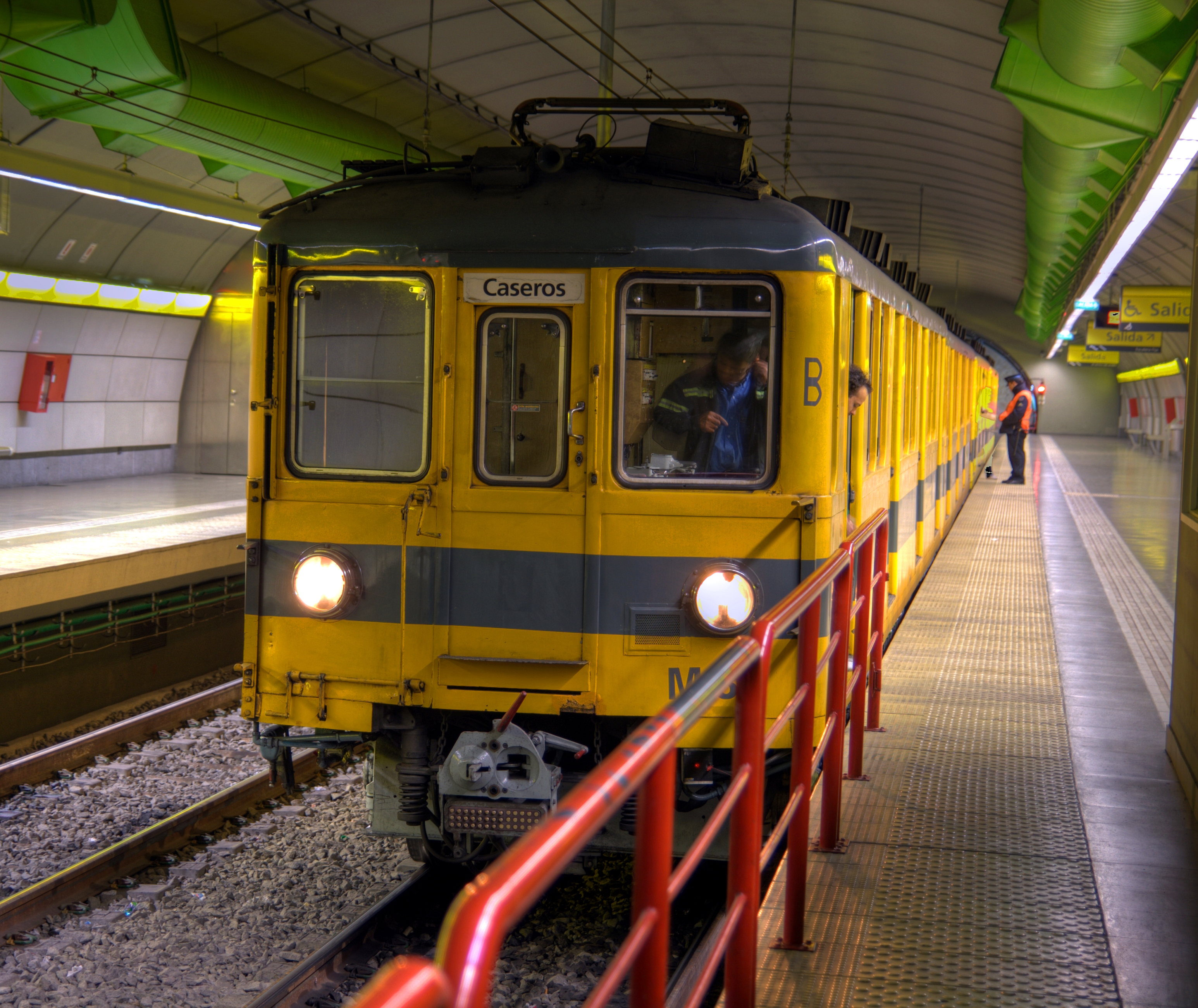 Formation waiting at the station